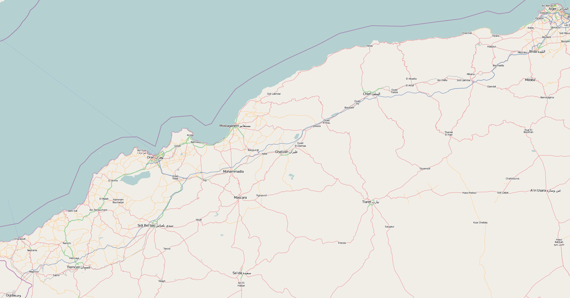 Map of Algerian Highway A1, part West